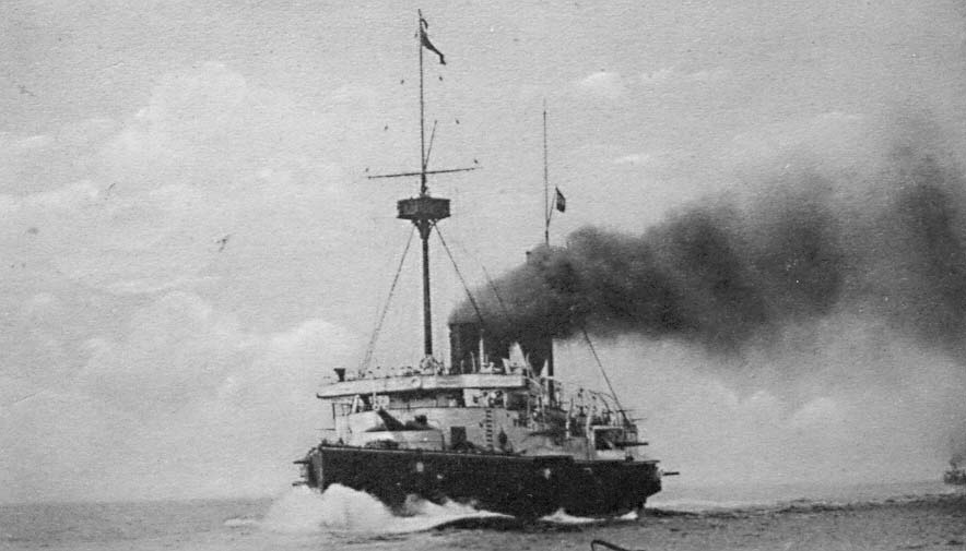 k.u.k. Cruiser SMS Kaiser Franz Joseph I, Kaiser class